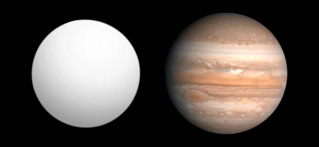 Comparison of best-fit size of the exoplanet HAT-P-3 b with the Solar System planet Jupiter, as reported in the Open Exoplanet Catalogue[1] as of 2010-09-30. ↑ Open Exoplanet Catalogue (2010-09-30). Retrieved on 2010-09-30.